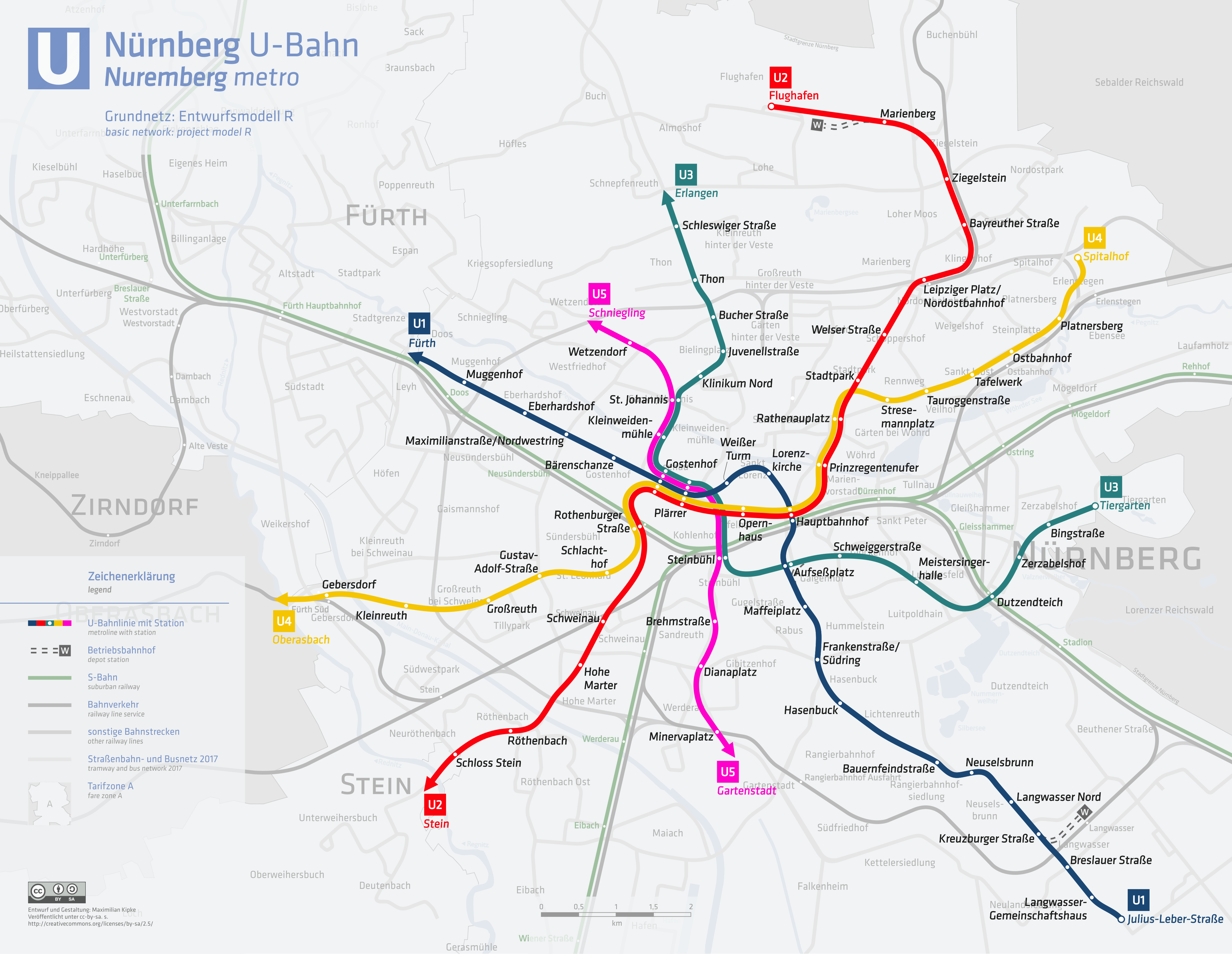 basic network: project model R of nuremberg metro